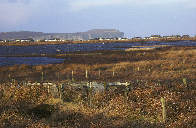 Loch of Mey, Caithness. Loch of Mey is a shallow ephemeral loch which is fringed by fen and marshy grassland. It is designated as an SSSI and is used by wintering, migrating and breeding birds. It is one of the two most important roosting sites in northern Scotland for wintering flocks of Greenland white-fronted goose. Dunnet Head, the most northerly point on mainland Britain, can be seen in the background.